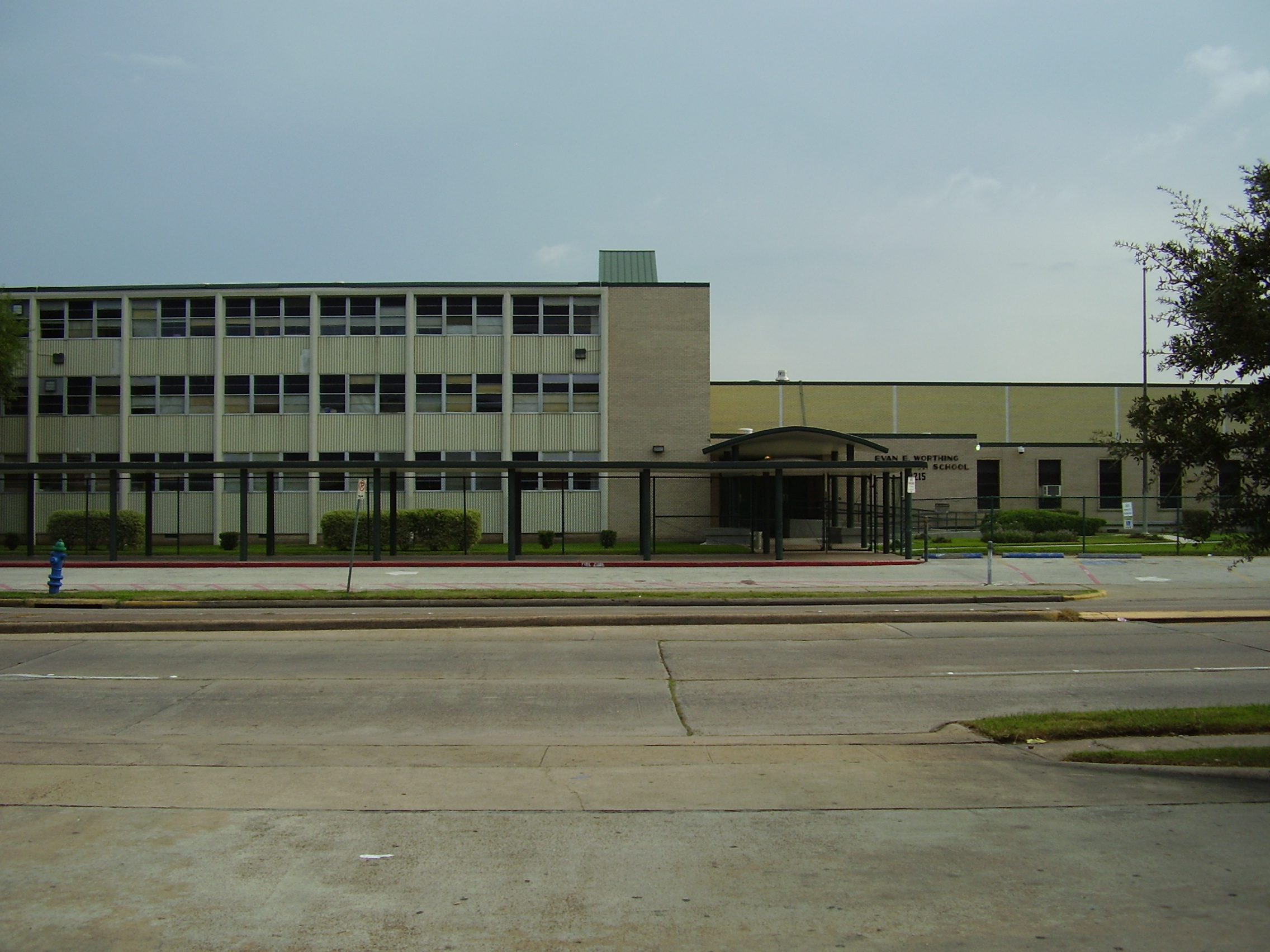 Evan E. Worthing High School